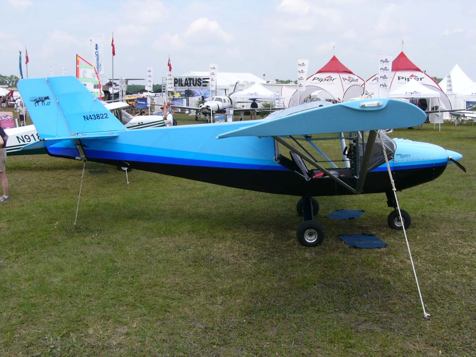 Rans S-6ES Coyote II at Sun 'n Fun 2006